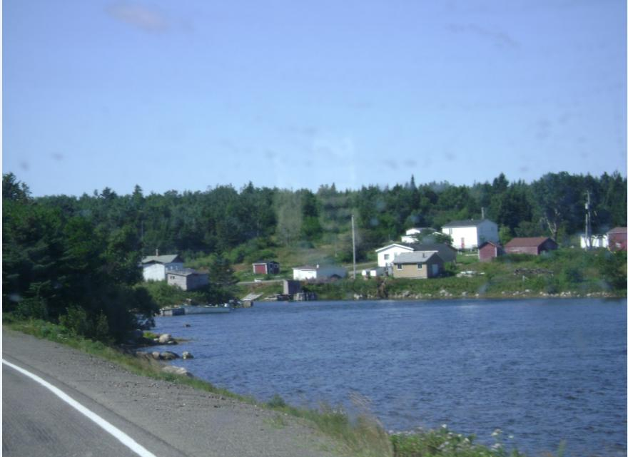 Picture of Boyd's Cove